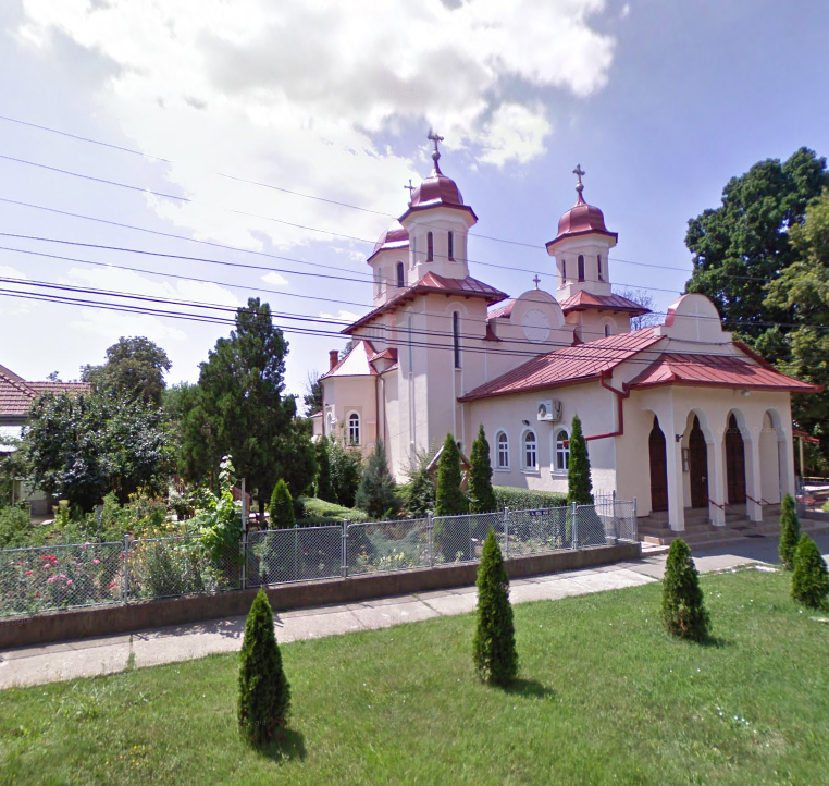 oradea